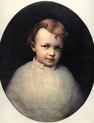 Portrait of Vladimir Lenin at age of three by Ivan Parkhomenko